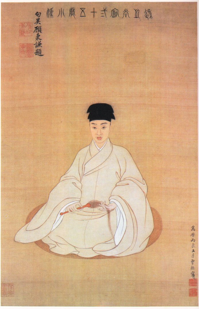 Wang Shimin, painter of China.